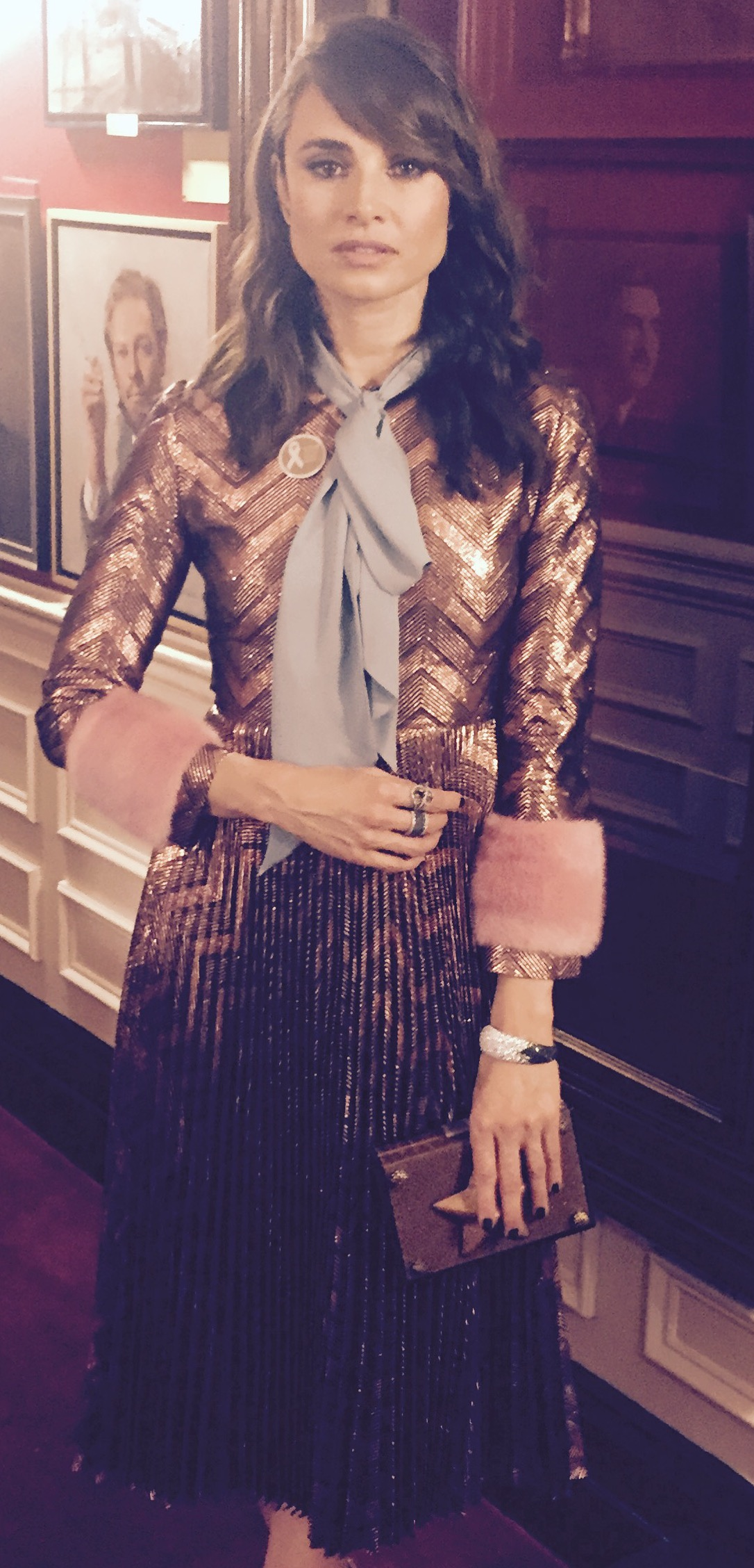 Mia Maestro wearing Gucci